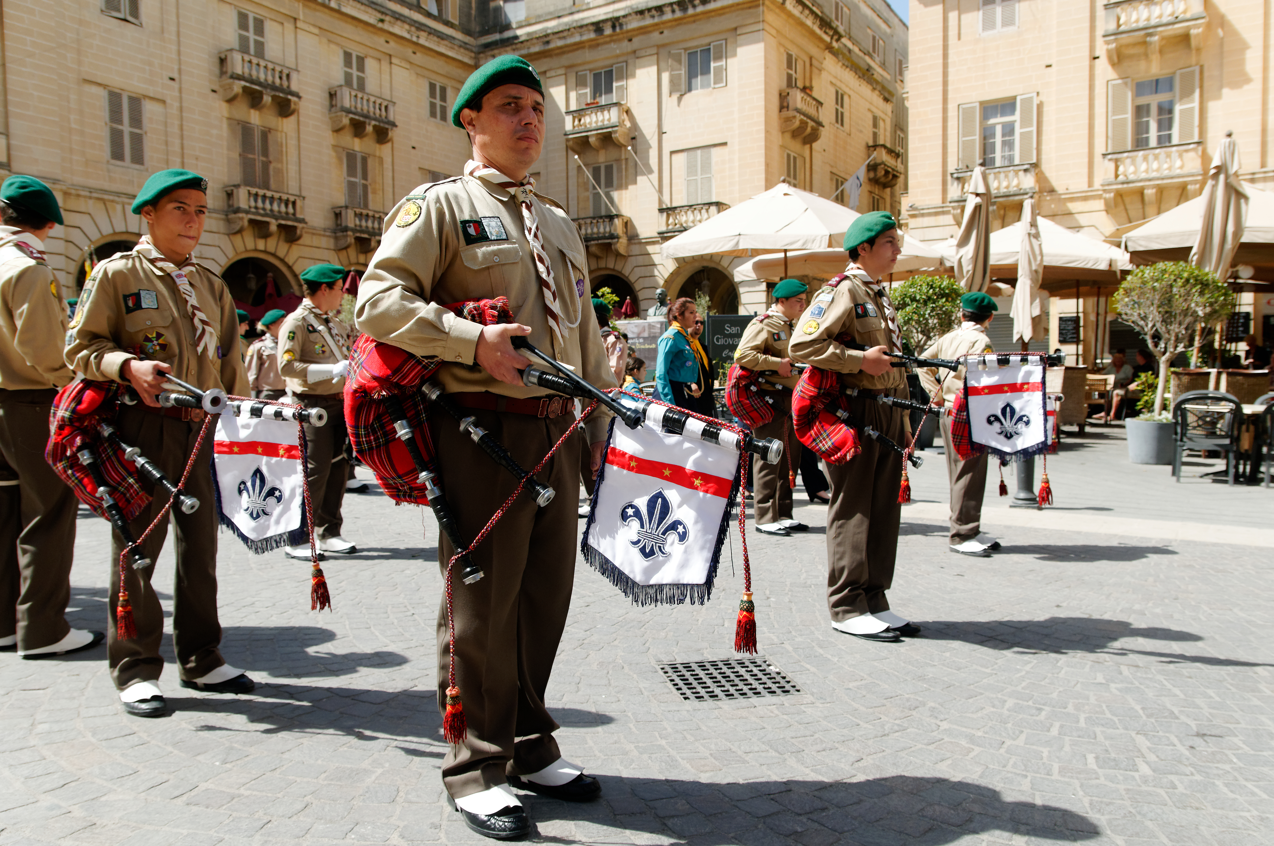 The Malta scouts annual parade 2012 in Valletta, here in front of St. John's Co-Cathedral.